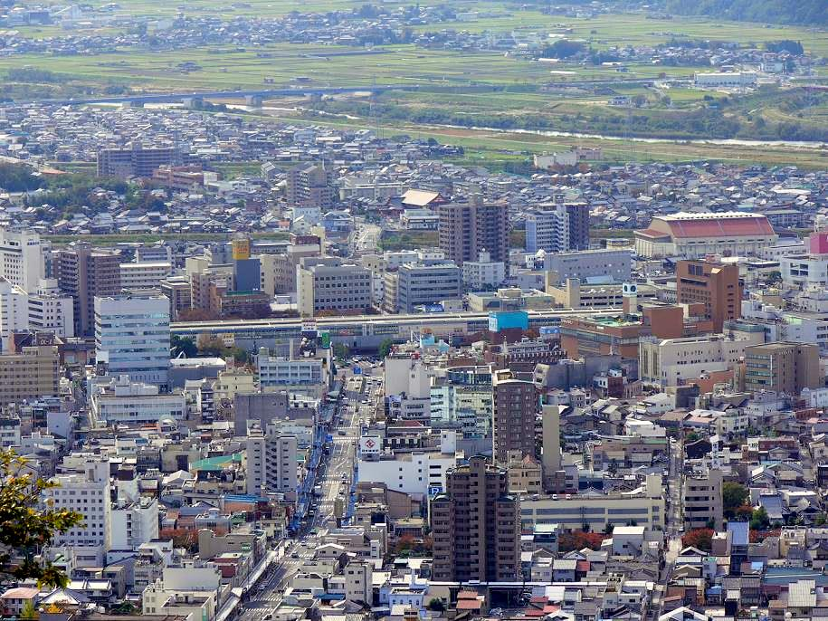 The Tottori Station is hoped for more than Kyuushouzan. (Japan Tottori Prefecture Tottori City).